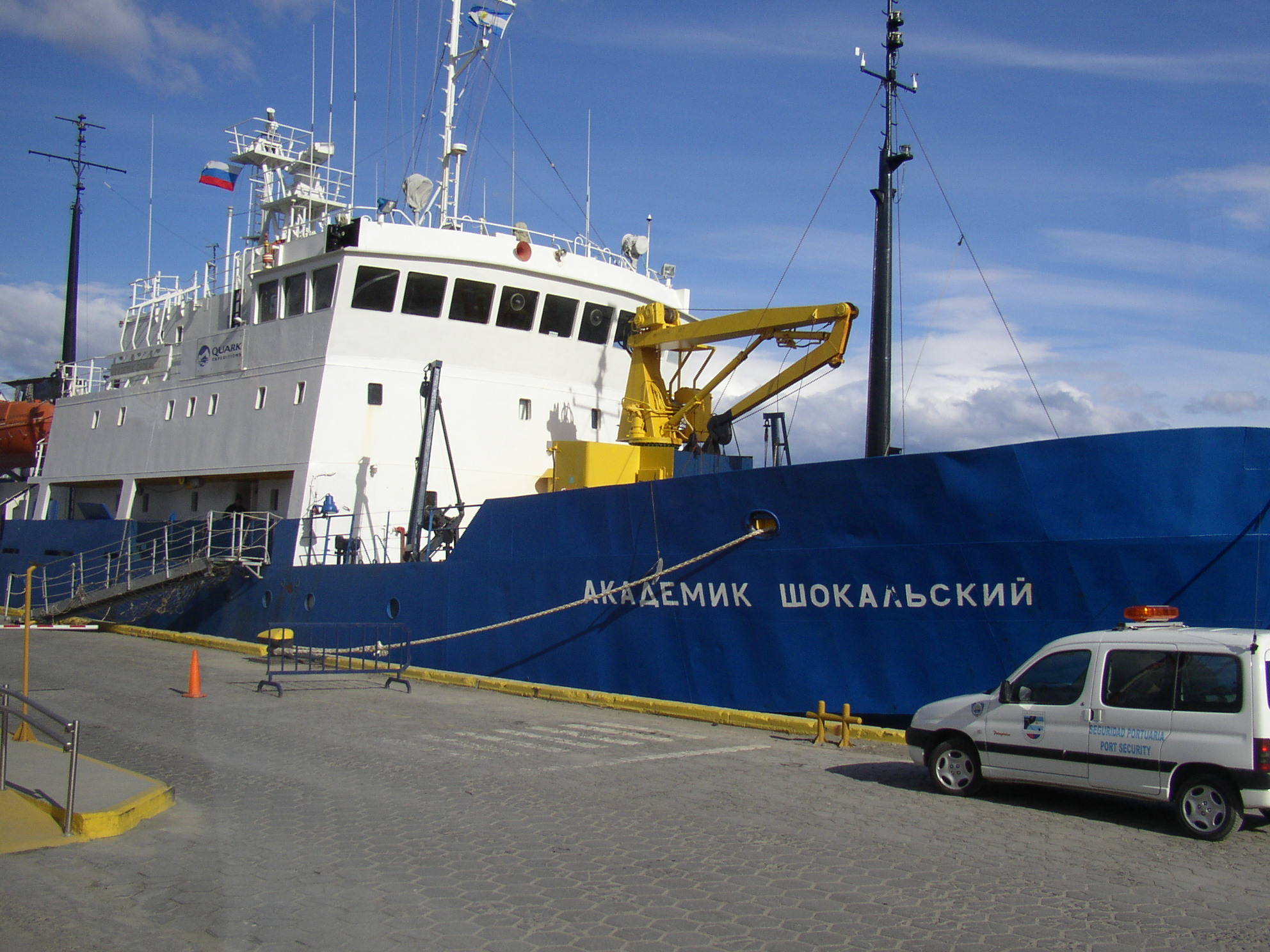 Cruise ship Akademik Shokalskiy in Ushuaia harbor